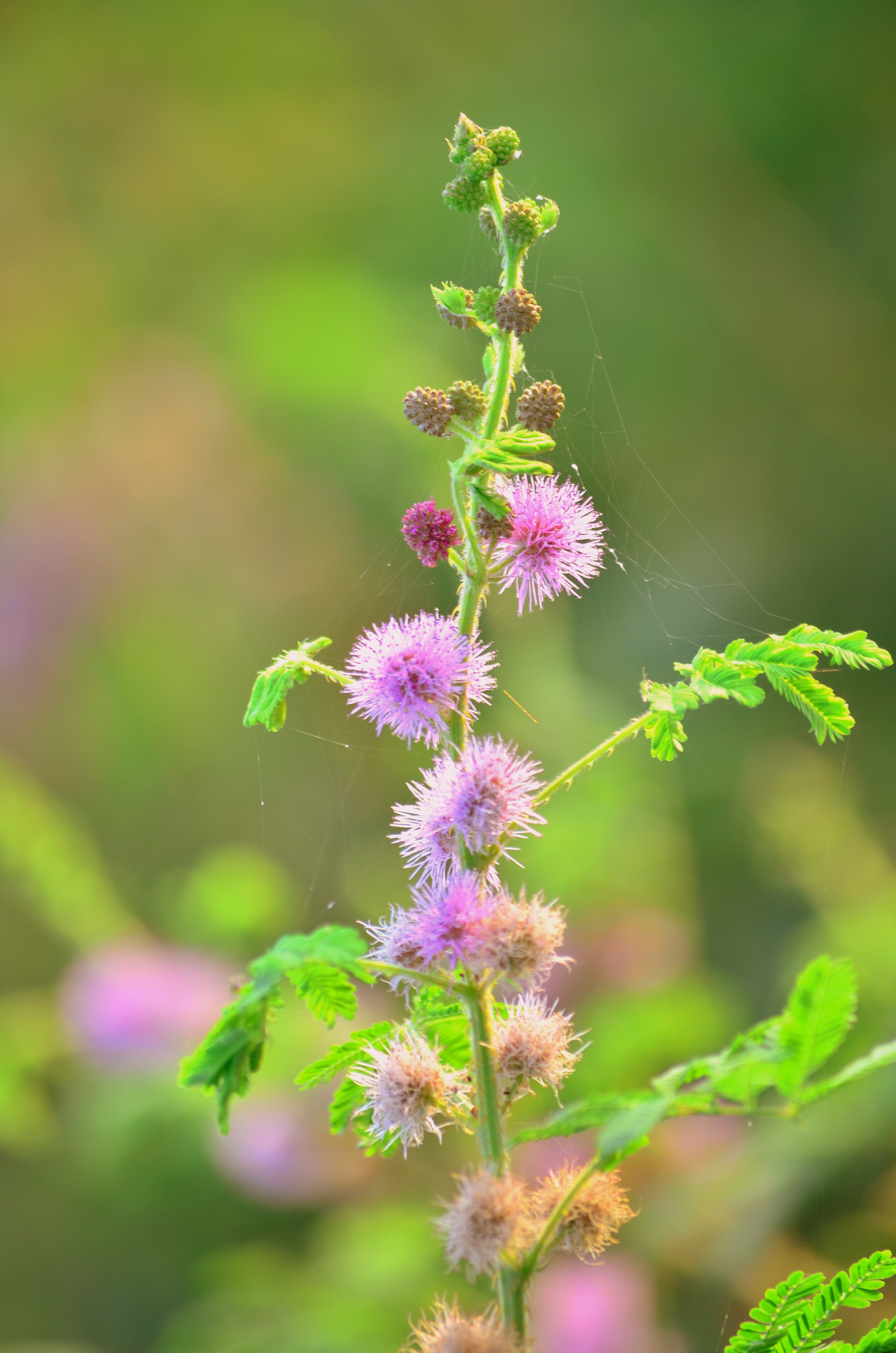 ആനതൊട്ടാവാടി , Mimosa diplotricha